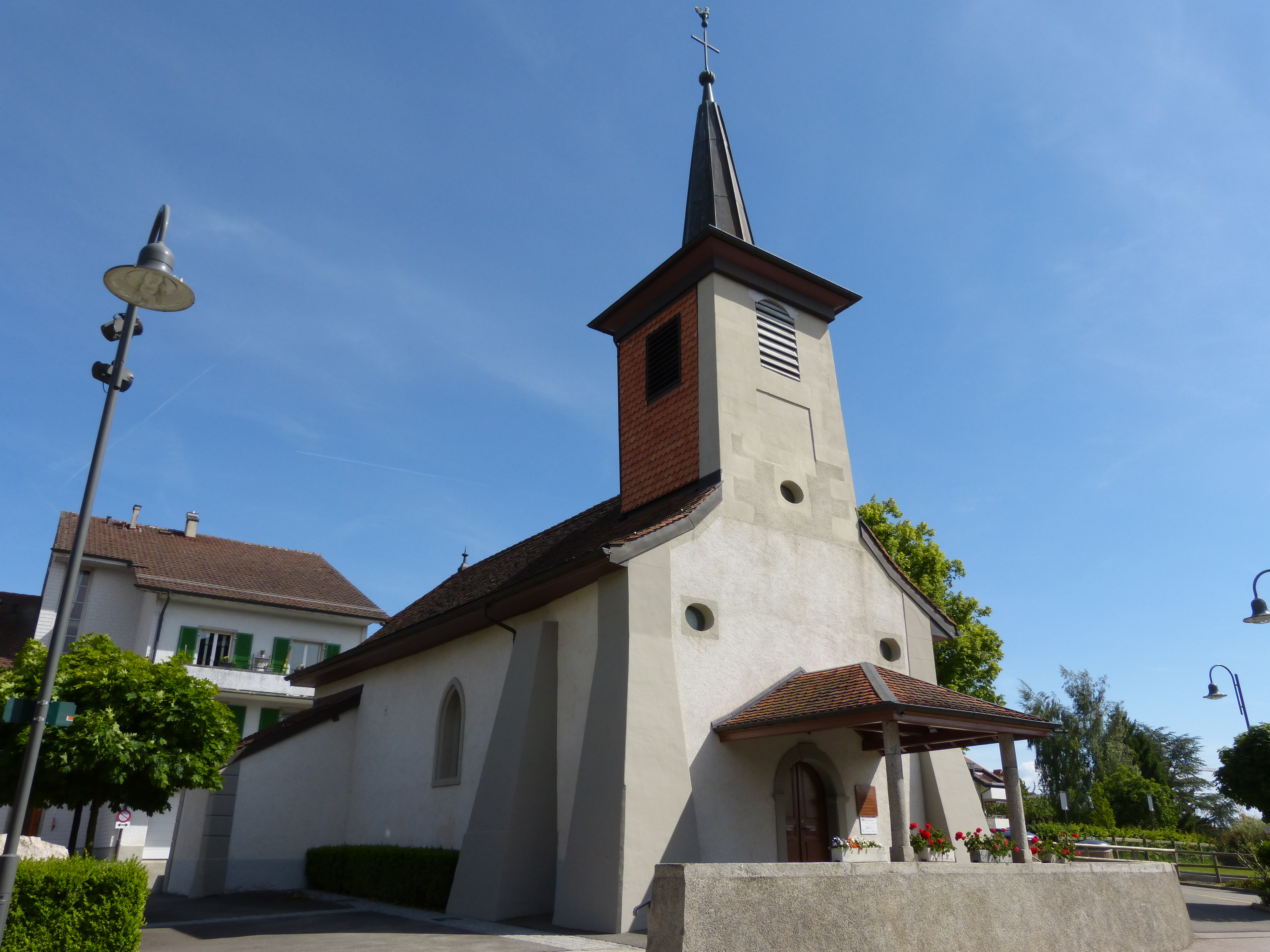 South-east wall of Saint-Lawrence chapel in Étagnières.